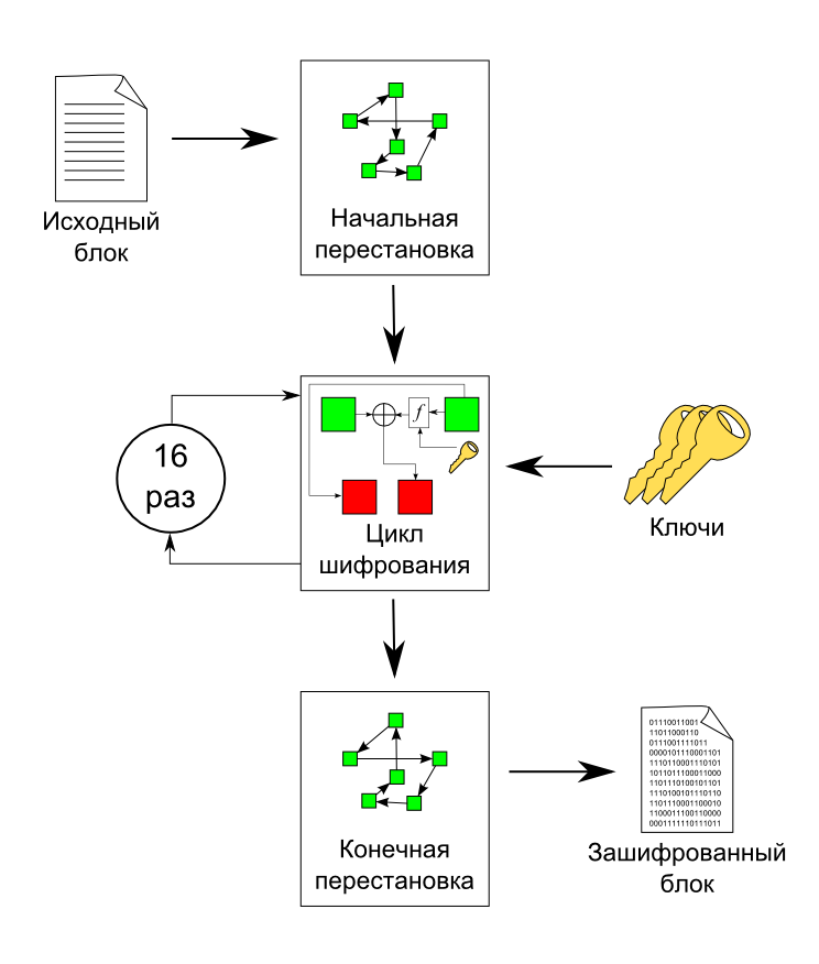 DES general working principle